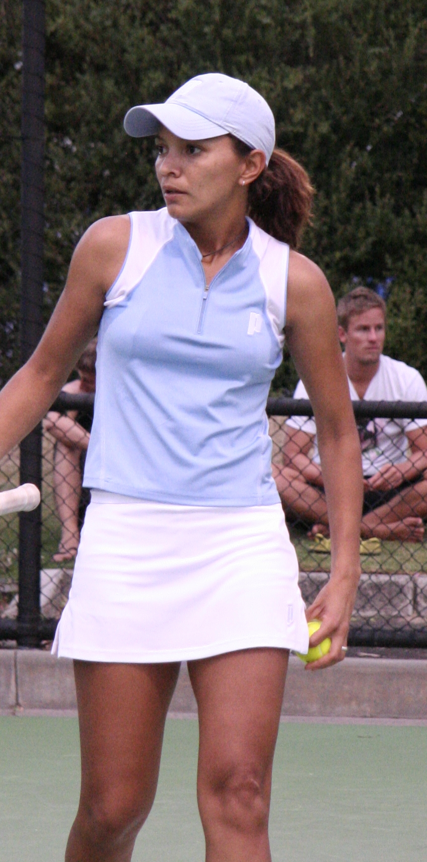 Milagros Sequera at the 2007 Australian Open, at her first-round womens doubles match, partnering Meilen Tu.